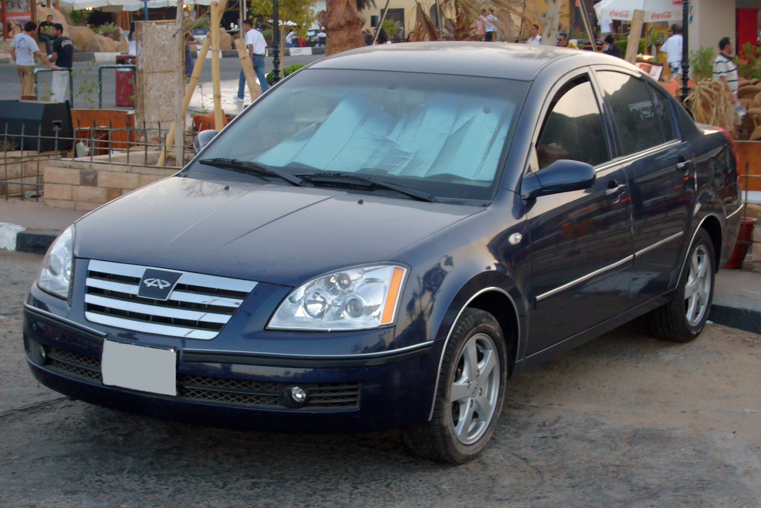 Front quarter view of the Speranza Chery A516 (model name of the Chery A5 in Egypt), photographed in Sharm el-Sheikh, South Sinai, Egypt.